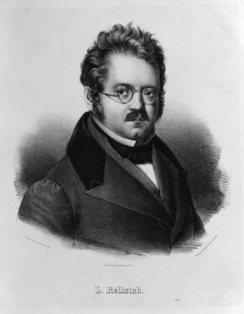 Lithographie Ludwig Rellstab